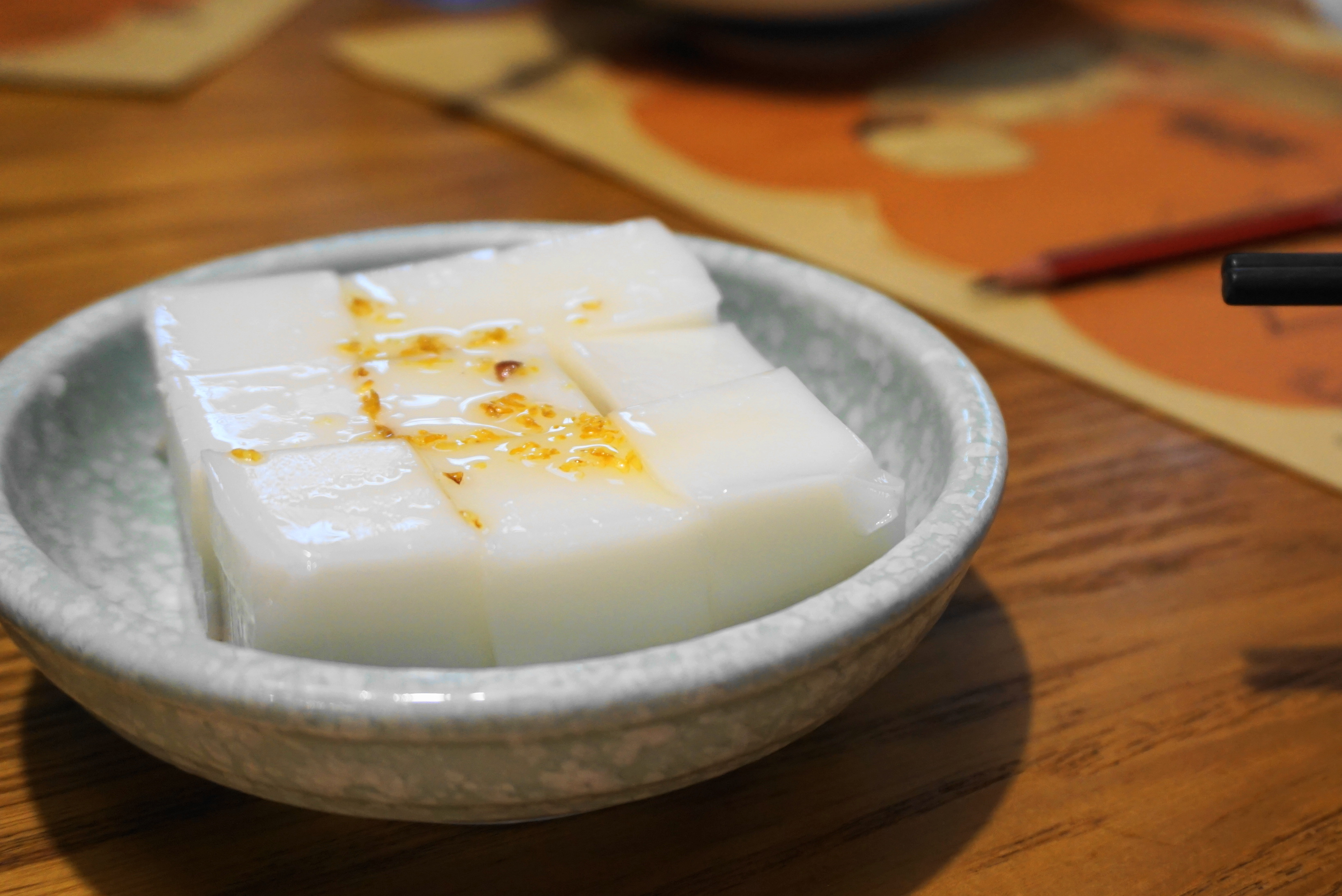 This photo has been taken in the country: China